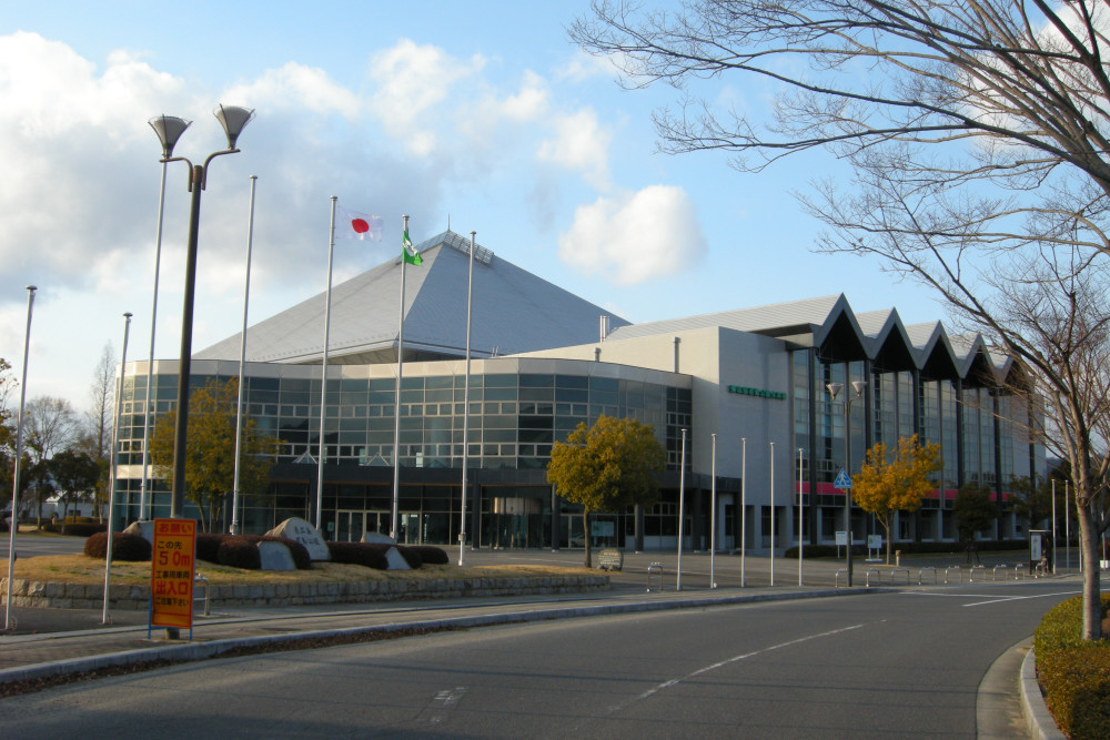 Higashihiroshima Gym in Higashihiroshima, Hiroshima pref., Japan.